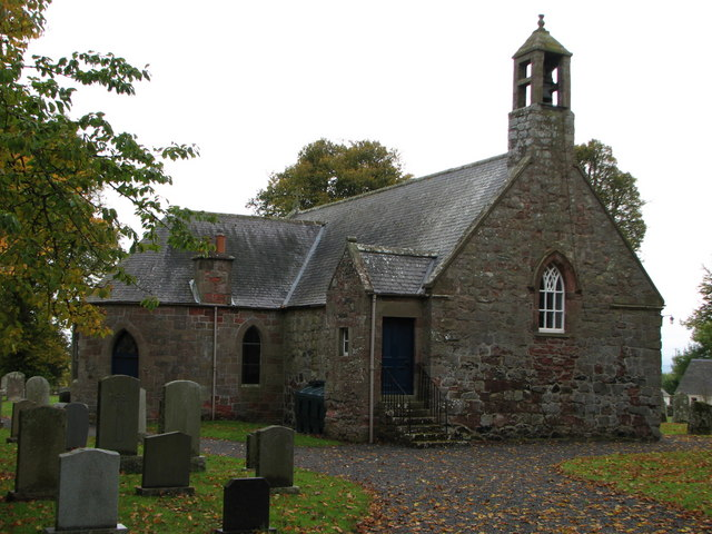 Smailholm Church A beautiful little church in the quiet Borders village of Smailholm